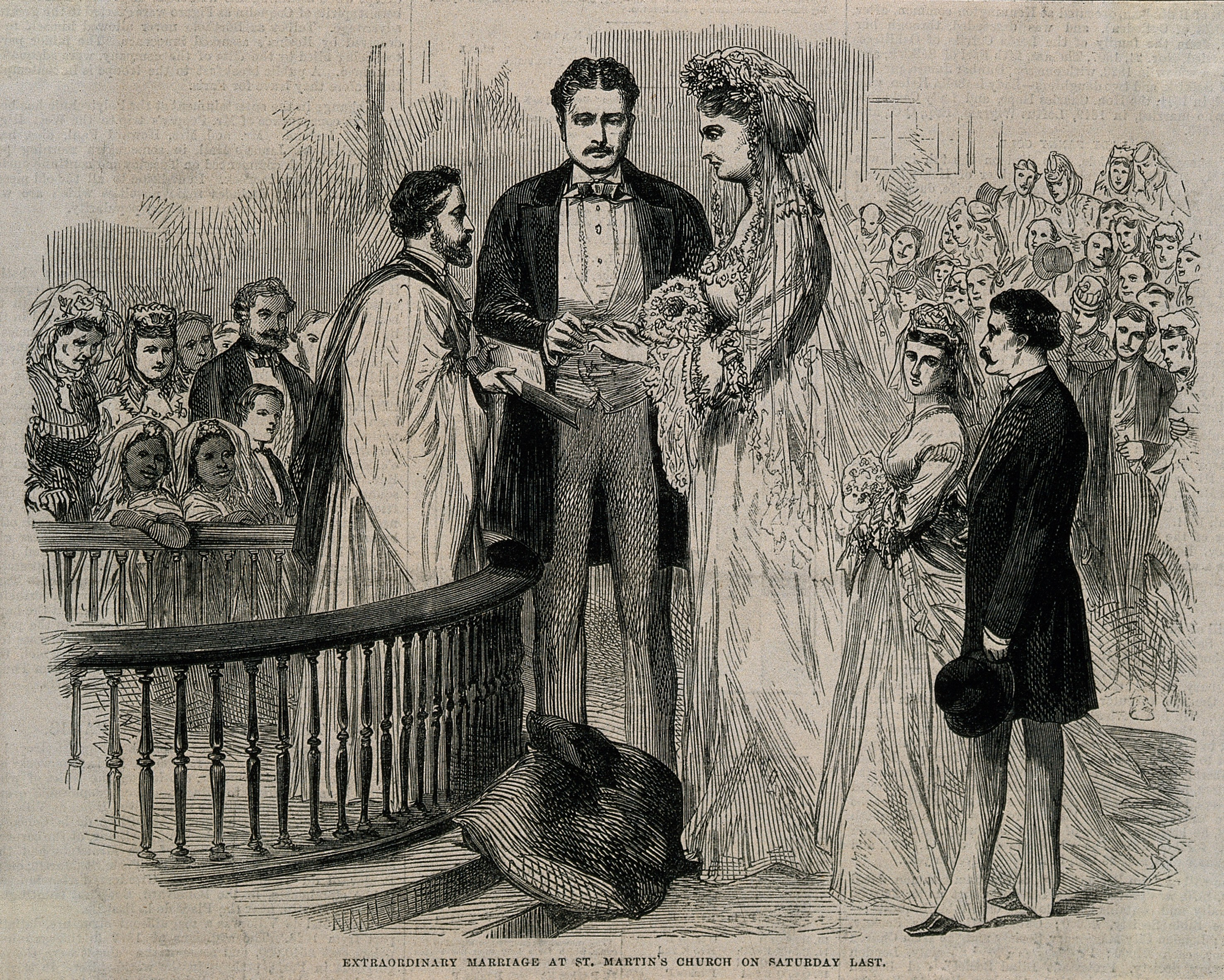 The marriage of Captain Martin van Buren to Anna Swan. Wood engraving, 1871. Iconographic Collections Keywords: Anna Swan; Martin van Buren